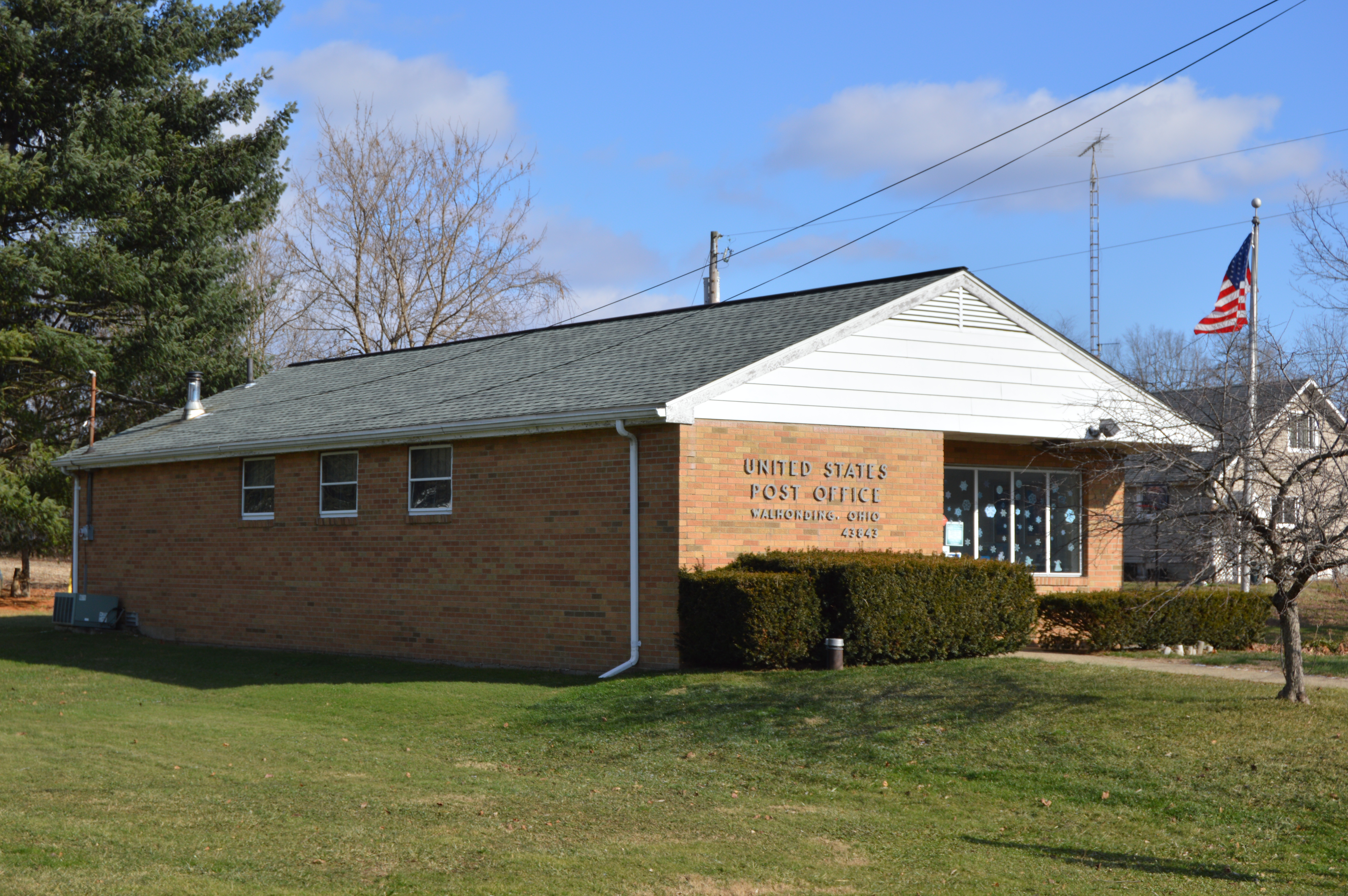 Western side and front of the Walhonding Post Office, located at 33118 State Route 715 in Walhonding, an unincorporated community in Newcastle Township, Coshocton County, Ohio, United States.